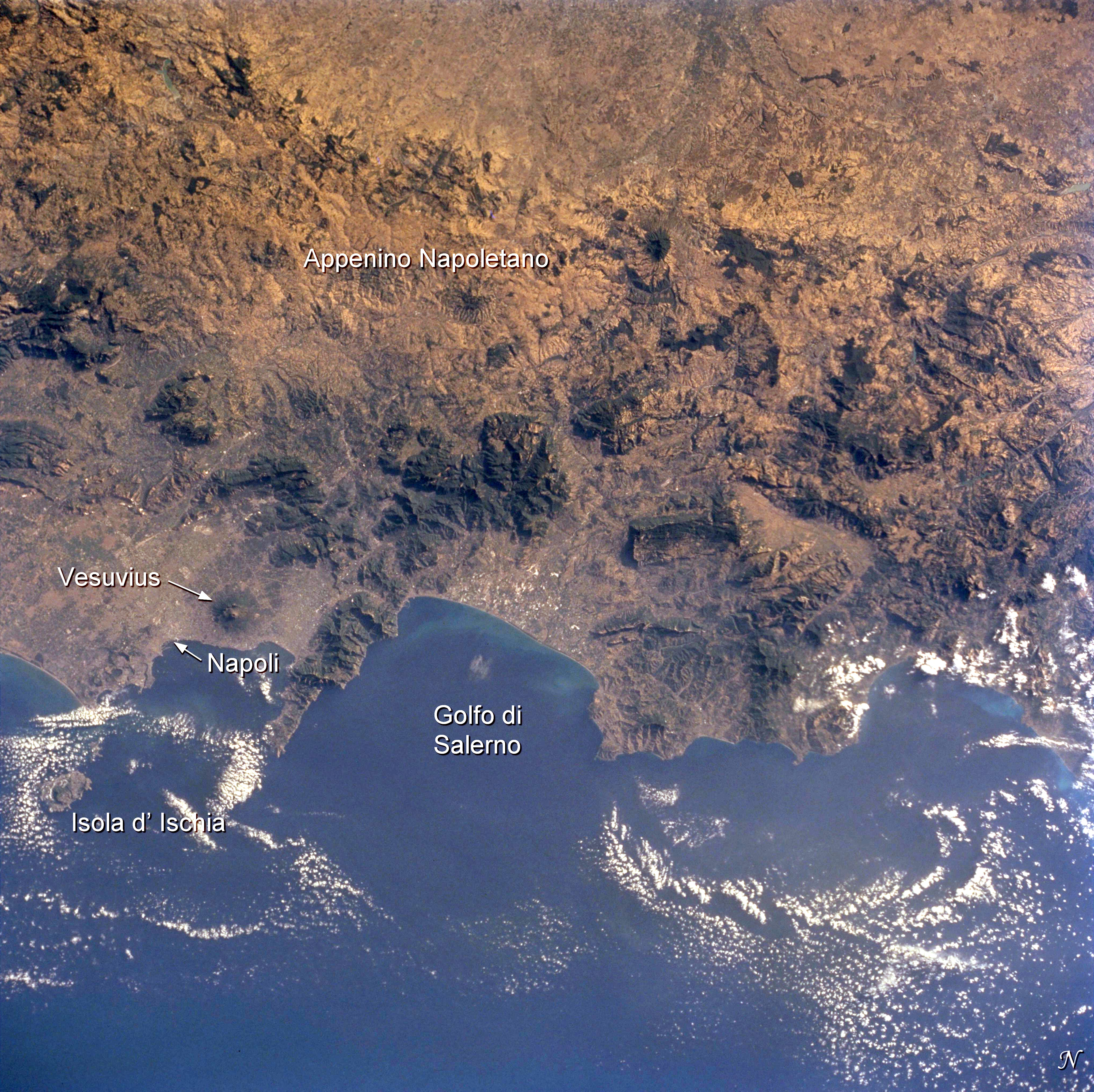 Photo of the bay of Naples and the Vesuvius vulcano, taken by Space Shuttle astronauts For more than 240 million years the region now known as Italy has been the scene of episodic volcanic activity. East-southeast of Napoli (Naples) stands the imposing cone of Vesuvius, which erupted explosively in 79 A.D. to bury Pompeii and Herculaneum. More recently, when the crew of Space Shuttle mission STS-104 captured this view, Mt. Etna (Sicily, not seen in this image, but photographed the day before) was spewing ash and gas thousands of meters into the air, some of which can be seen as a brownish smear over Isola d’ Ischia and the Tyrrhenian Sea. The Appenine ranges extend from northern Italy, down the boot of the peninsula and westward into Sicily. This photograph of the Appenino Napoletano is part of an 18-frame stereophoto mapping strip that spans the entire mountain chain. The almost 1200-km-long belt of volcanoes and folded/faulted mountains is a result of the ongoing collision of Africa and Eurasia, accompanied by the progressive closing of the Mediterranean Sea. Using overlapping pairs of stereophotos, and a special viewer, scientists can get a three-dimensional perspective on the ranges that surpasses any image viewed alone.